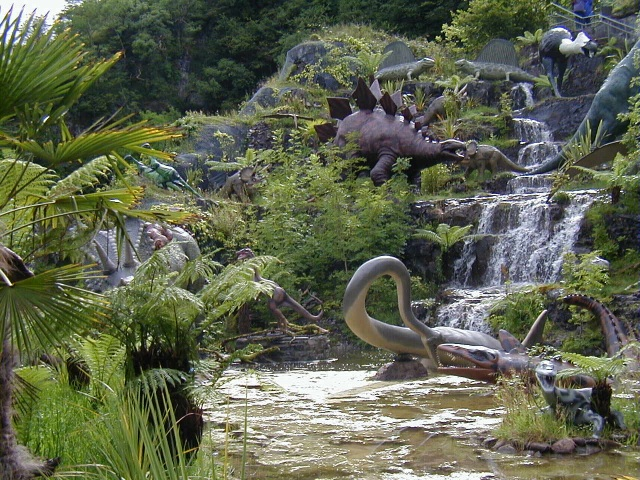 Dan-Yr-Ogof Show Caves - Dinosaur exhibition. As well as three impressive show caves, Dan-Yr-Ogof show caves has a museum, schools centre and also has an impressive display of fibreglass dinosaurs!